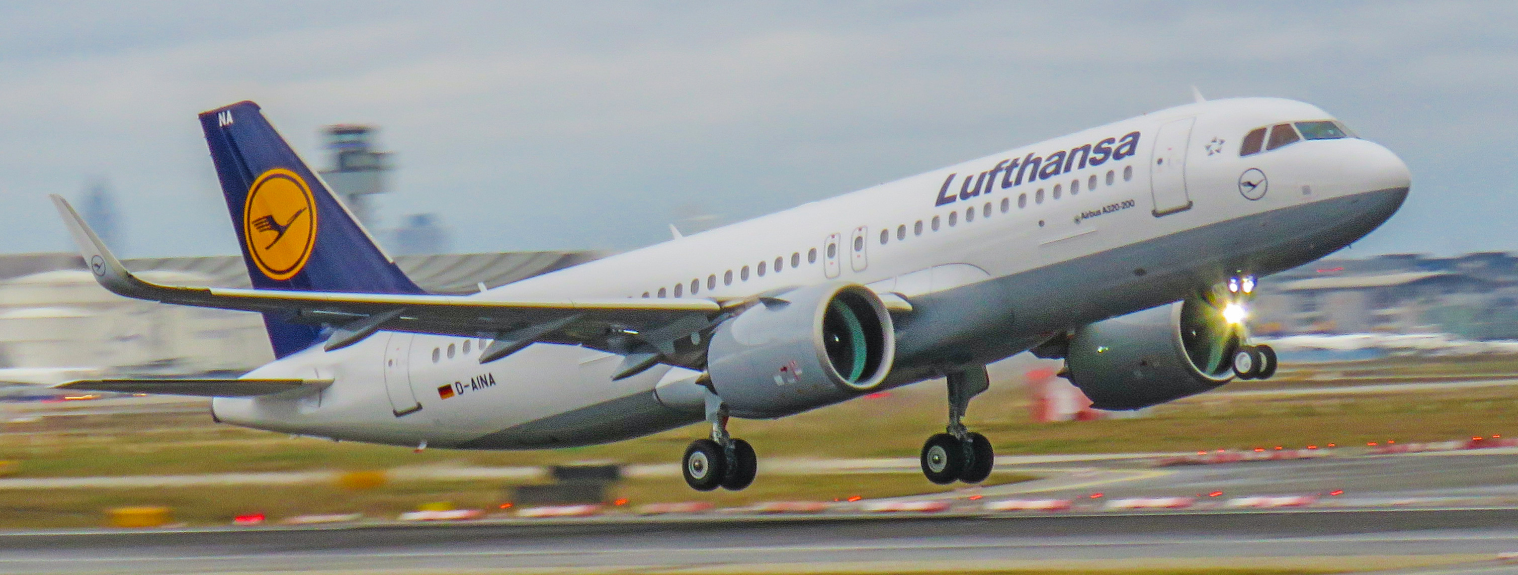 Lufthansa Airbus A320 neo D-AINA, The world's first A320 neo